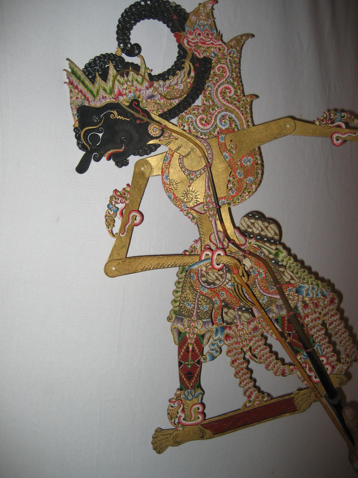 Gatotkaca, one of the Javanese shadow puppet's characters (wayang)